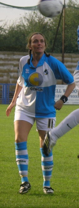 Justine Joanna Lorton Birmingham City Ladies vs Bristol Academy, away Season 2006/07